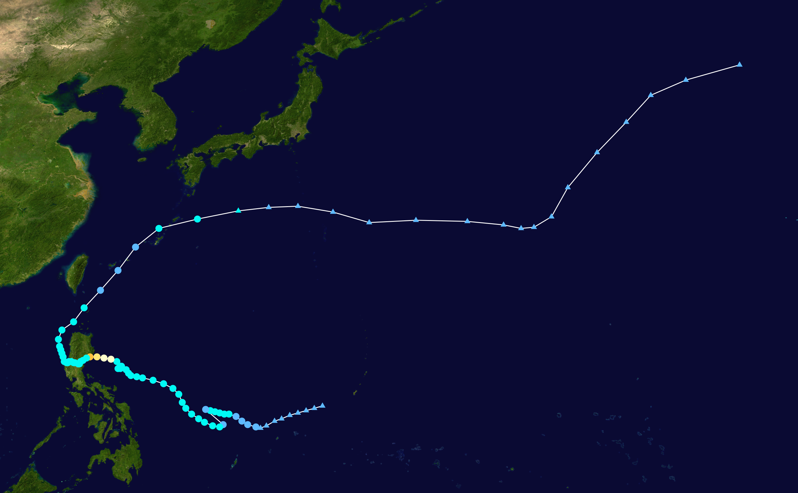 Typhoon Olga 1976 track. Uses the color scheme from the Saffir-Simpson Hurricane Scale.